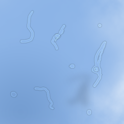 Impression of floaters against a blue sky. Made by User:Acdx in Photoshop.